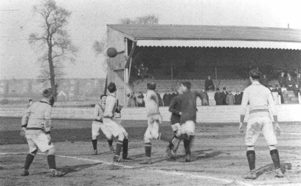 A Croydon Common F.C. home match against Luton Town F.C. at Croydon Common Athletic Ground ("The Nest"), sometime between 1909 and 1911; probably the Southern League fixture in February 1910, which Luton won 3–2.